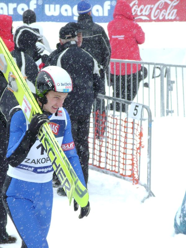 ski jumper Nikolay Karpenko from Kazakhstan during the World Cup in Zakopane on 27-1-2008